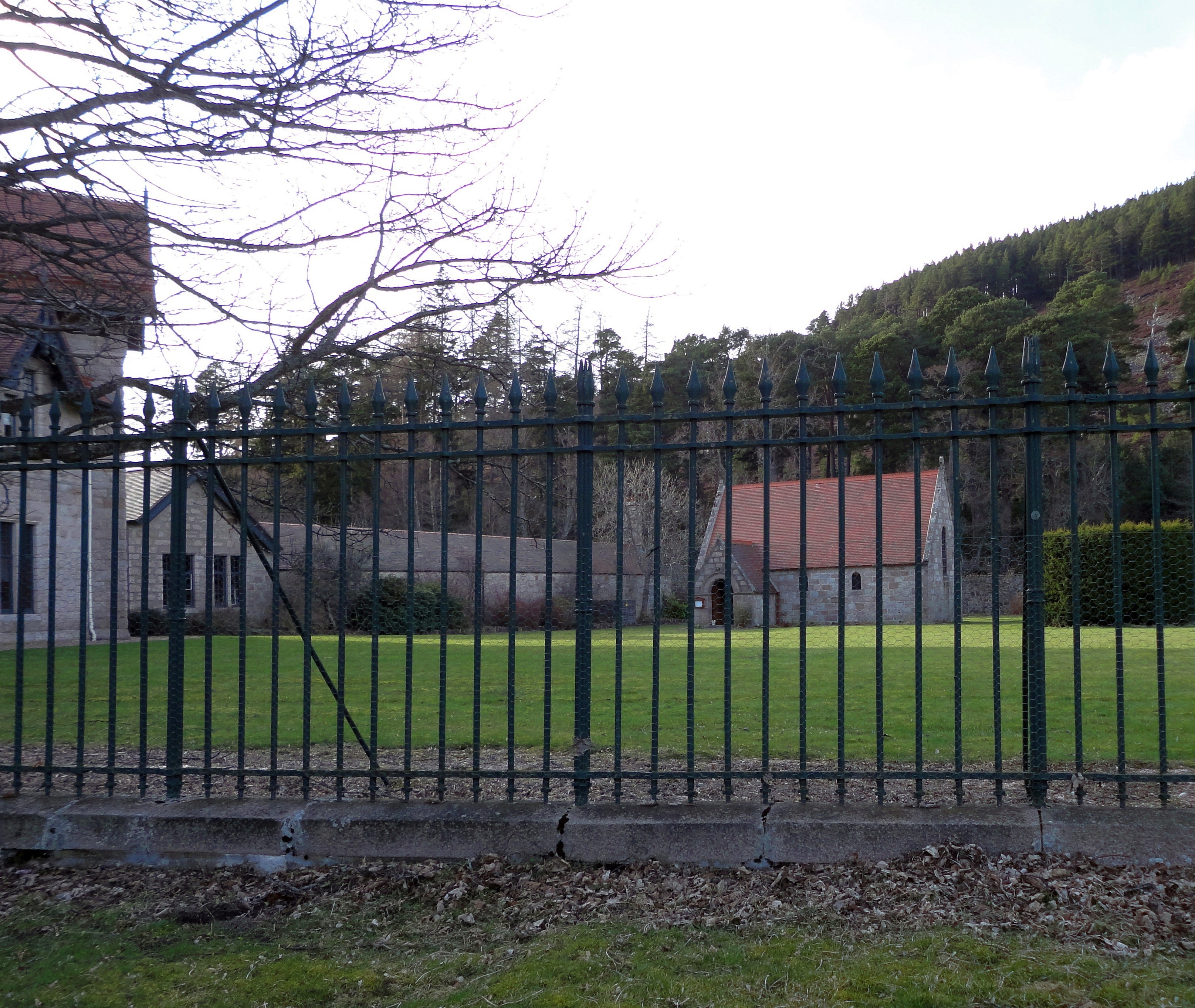 Braemar, Mar Lodge Estate, St Ninian's Chapel - setting within the Mar Lodge Estate